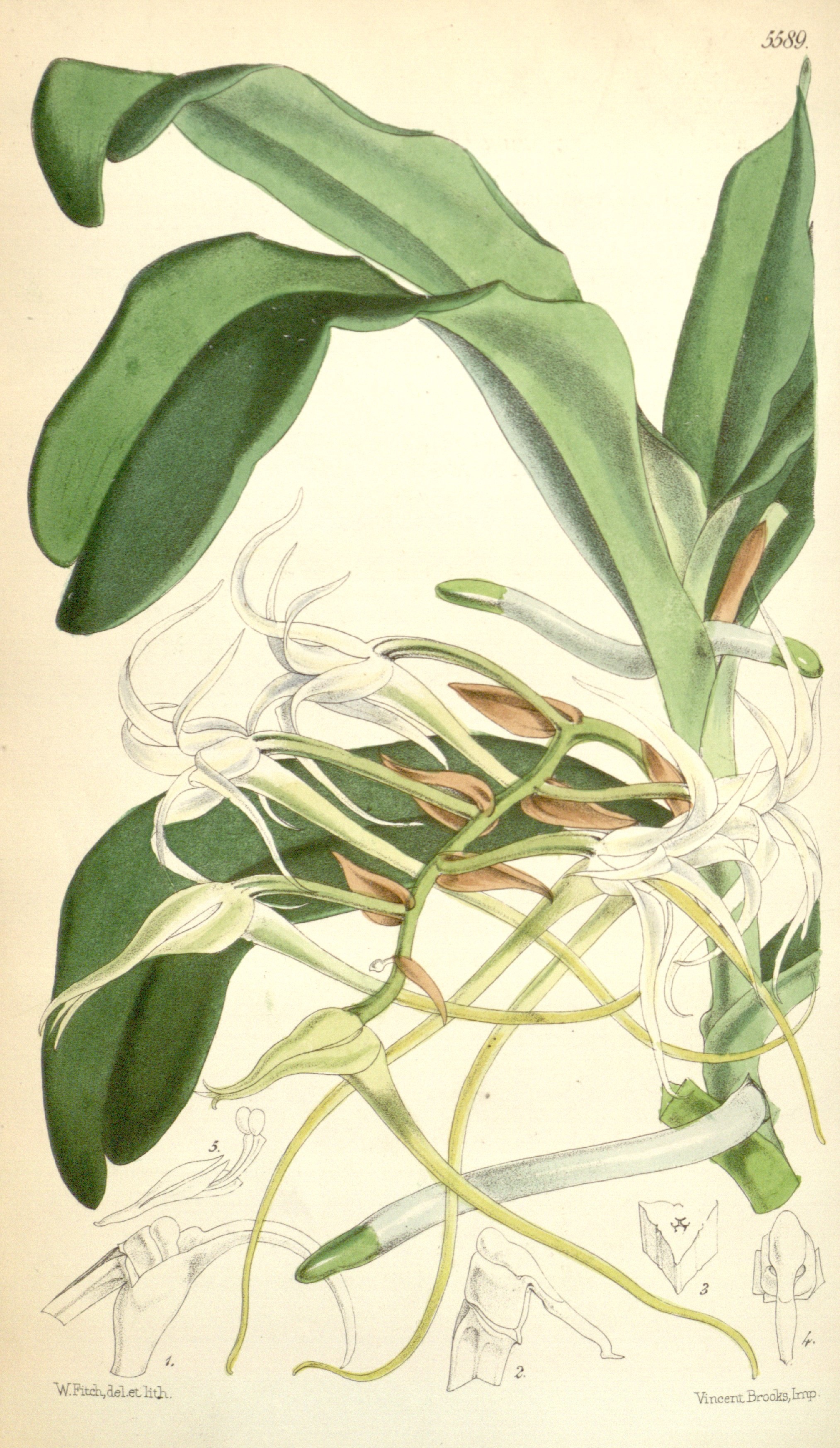 Illustration of Cyrtorchis chailluana (as syn. Angraecum chailluanum)